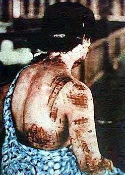 Nuclear burn patterns through cloth